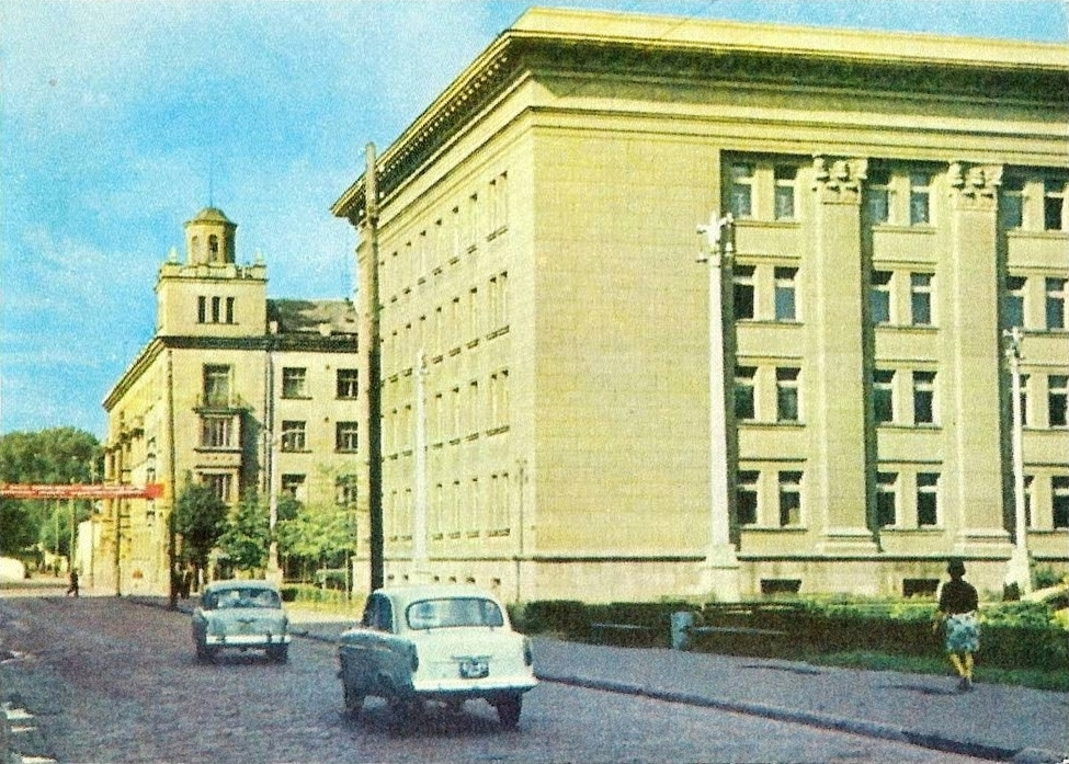 Buildings in Stalin Empire style. Daugavpils. LSSR. ~1960.